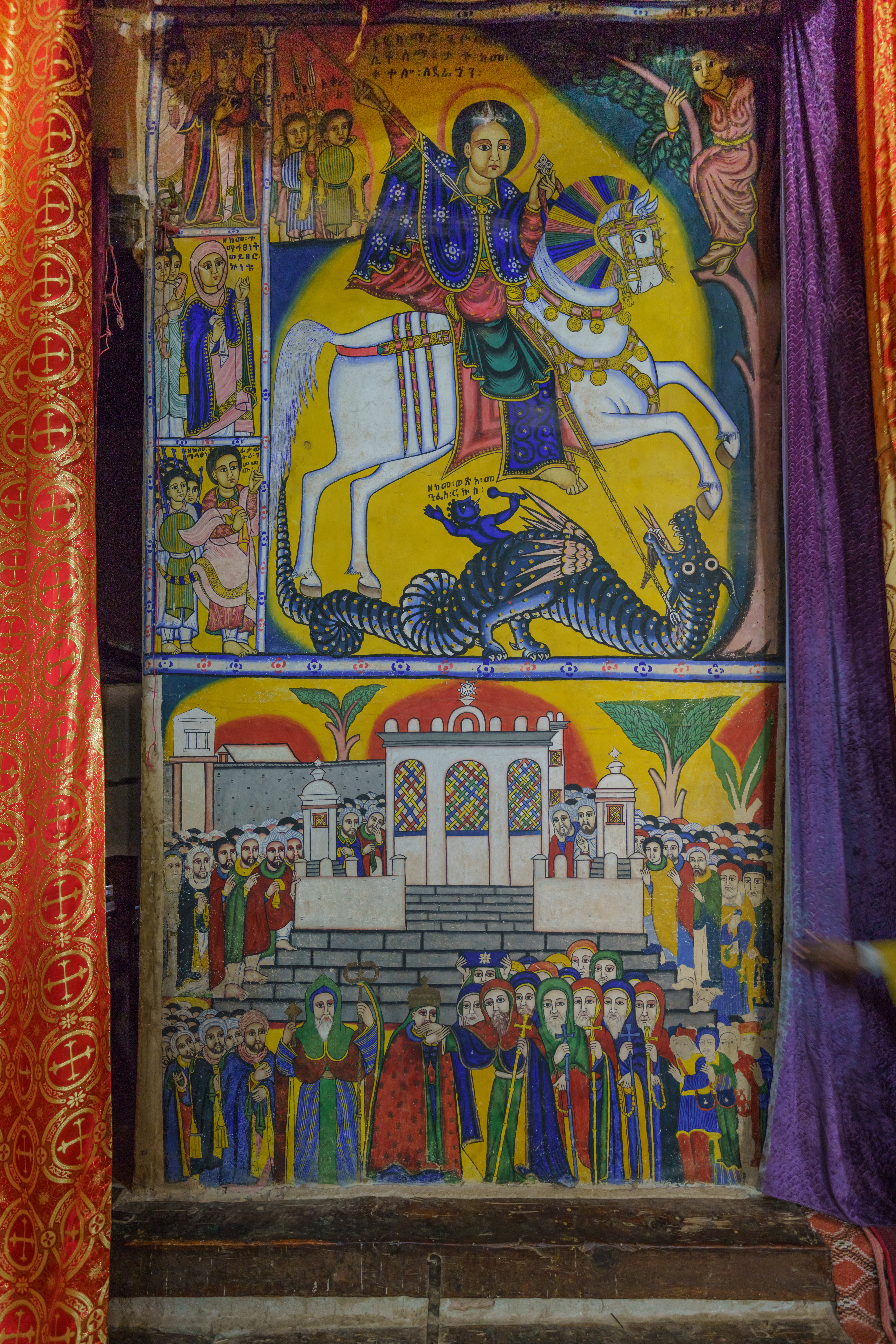 Old Church of Saint Mary of Zion in Aksum, Tigray Region, Ethiopia